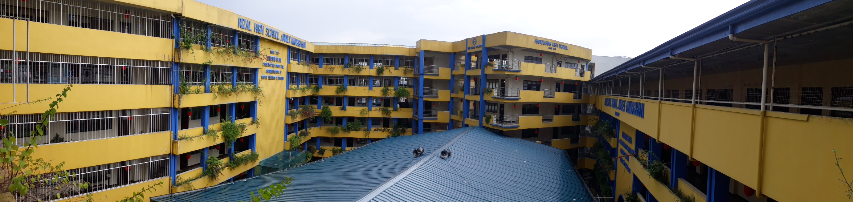 Manggahan High School skyline panorama shot from SCE 3 Building.